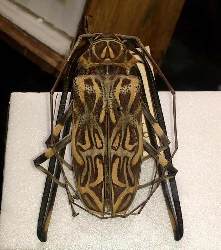 The upper view of Acrocinus longimanus (Linnaeus, 1758); Cerambycidae beetle from the neotropics photographed in the collection of the MZUSP - USP Zoology Museum (University of São Paulo; city of São Paulo, SP, Brazil) on 11-29-2019.